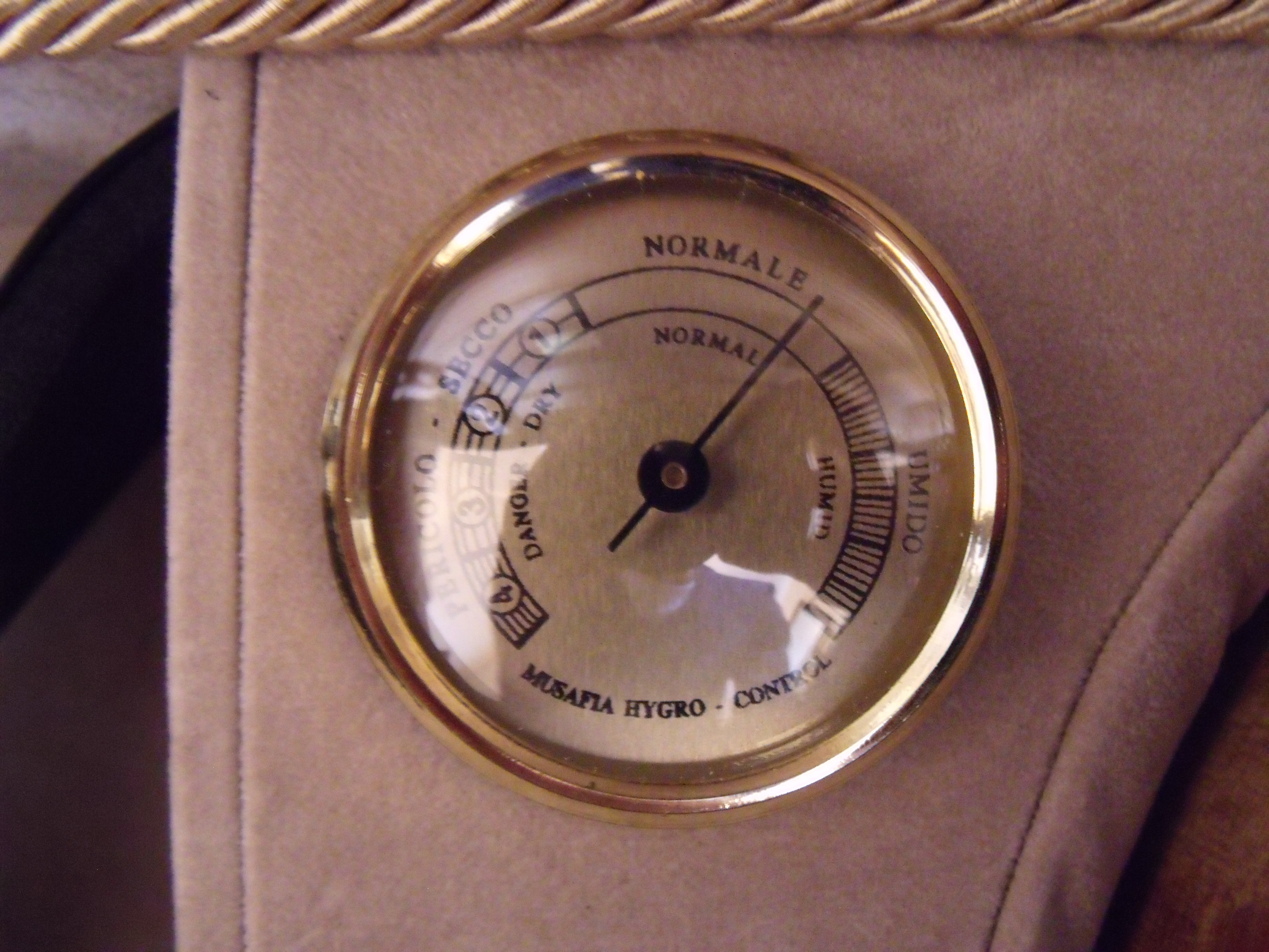 A Musafia hygrometer pictured in a Musafia Momentum case.